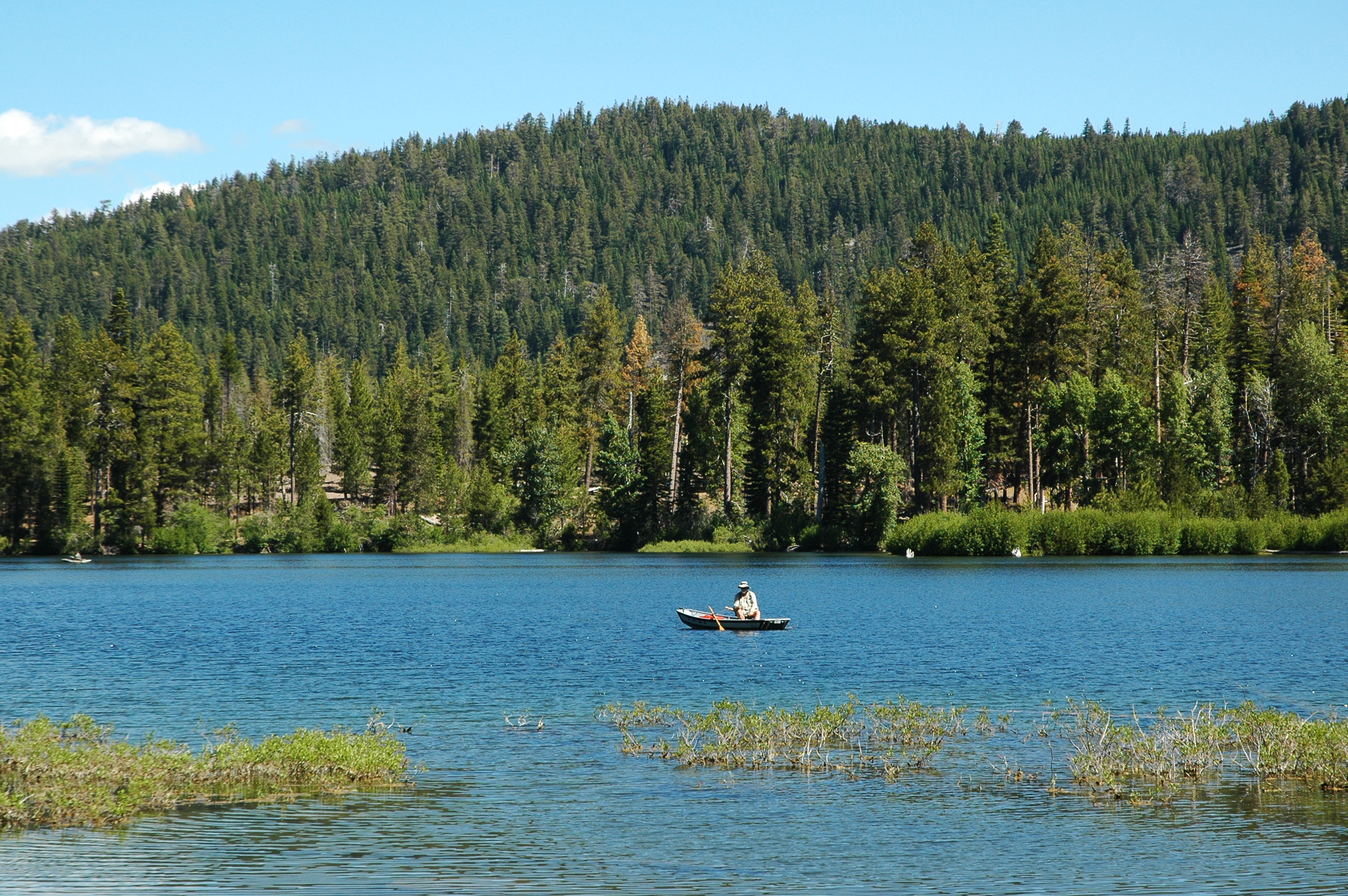 Fisher on Manzanita Lake, Lassen Volcanic National Park, California